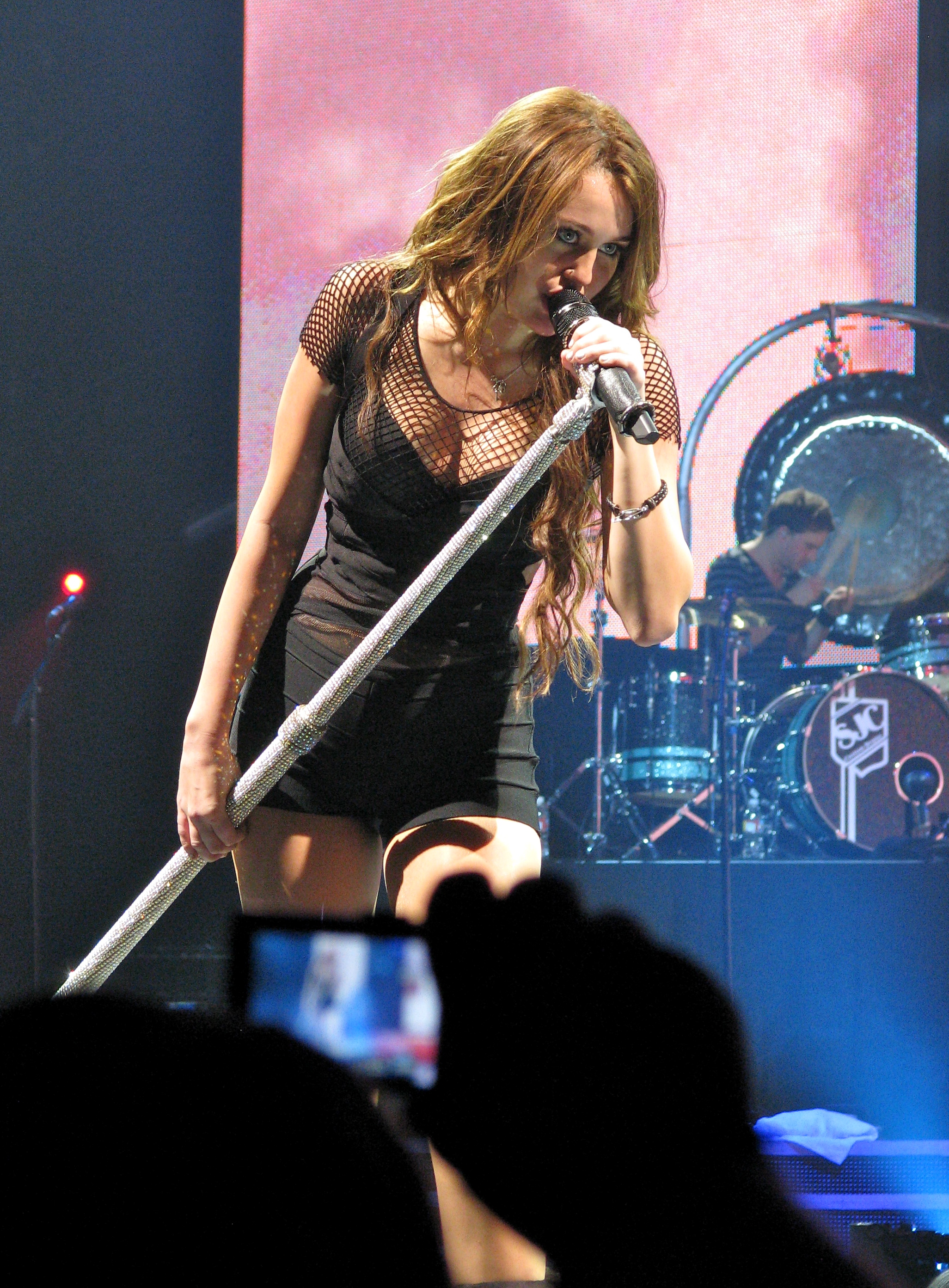 A teen singing.